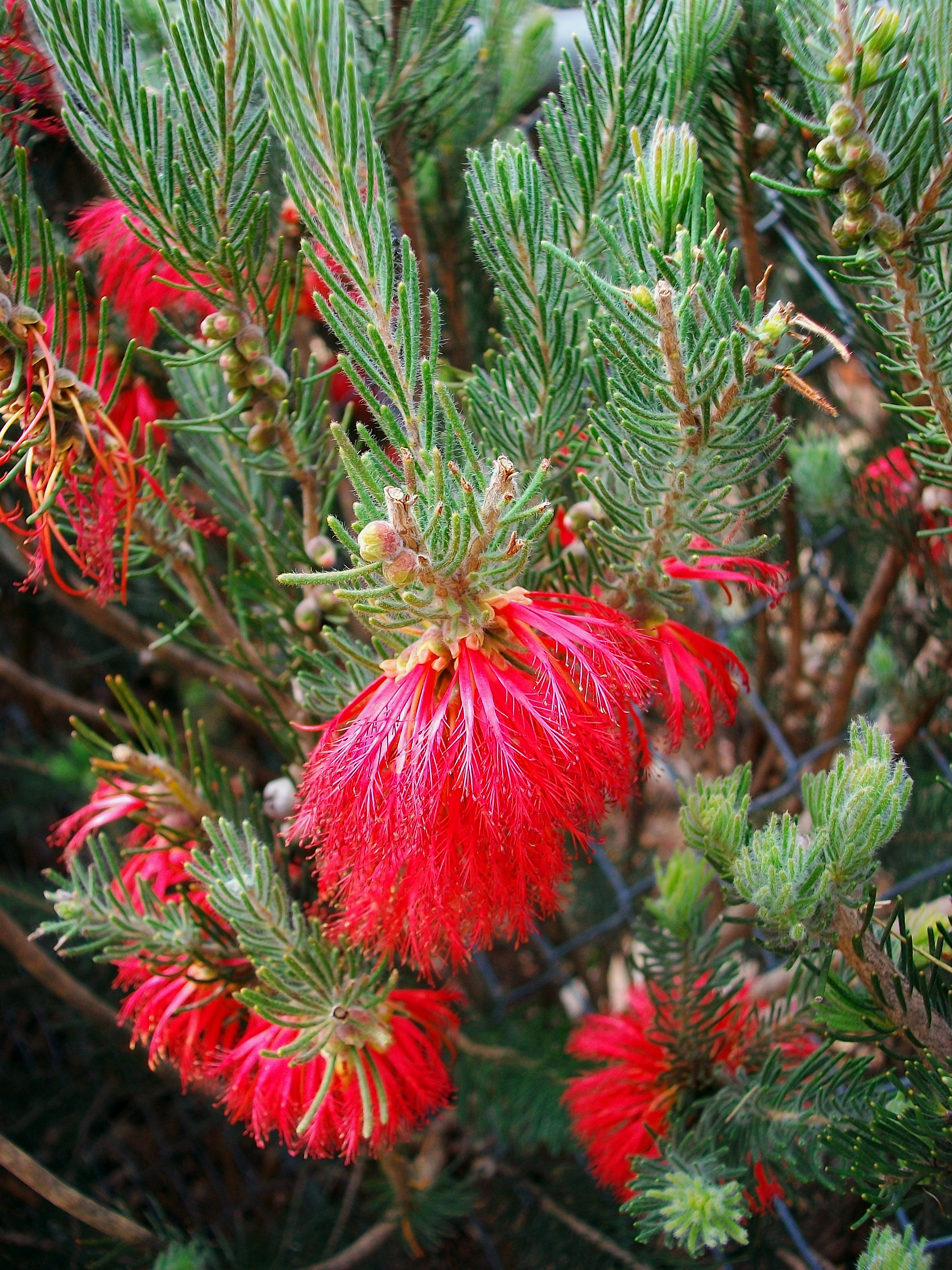 Calothamnus quadrifidus galbra (Calothamnus quadrifidus subsp. quadrifidus)at ErinEarth in the Wagga Wagga suburb of Turvey Park, New South Wales, Australia.